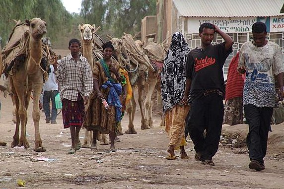 Street scene in Jijiga, Ogaden. Image taken by Charles Fred on flickr. The creator has granted GFDL licensing and permission for use in the wikimedia project.